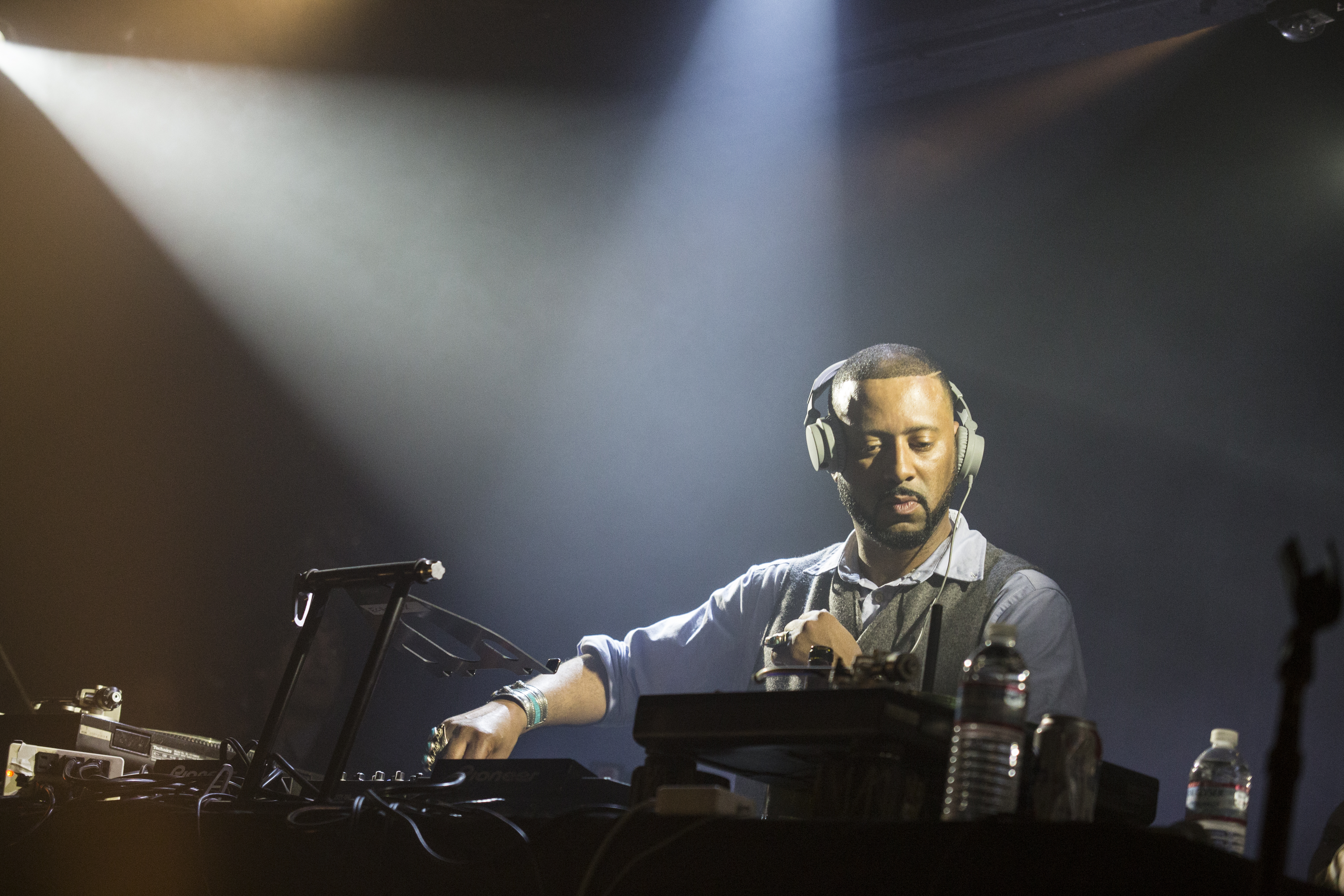 American producer Madlib at Echoplex, March 28, 2014